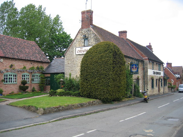 The Crown Inn, Crown Street, Harbury, Warwickshire